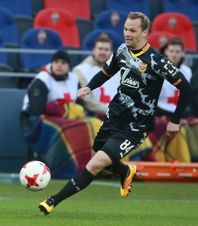 Oleg Vlasov with FC Arsenal Tula in a game against PFC CSKA Moscow.